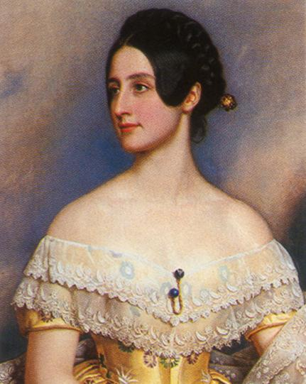 This is Lady Emily Milbanke (1822-1910), third daughter of the Earl of Mansfield, Esquire of Diggeswell, wife of Sir John Ralph Milbanke, British diplomat in Munich, painted for King Ludwig's Gallery of Beauties